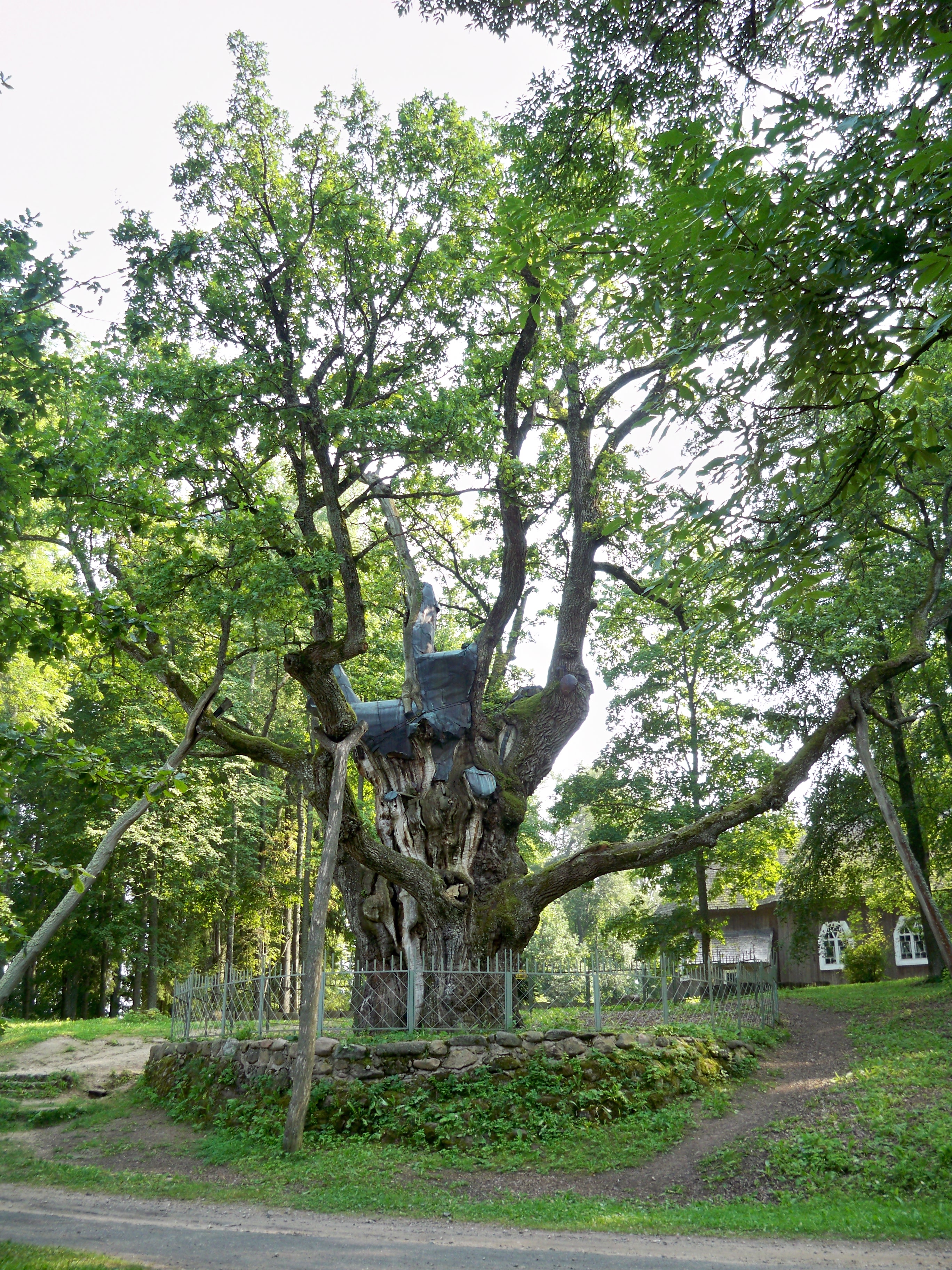 Stelmužė oak.